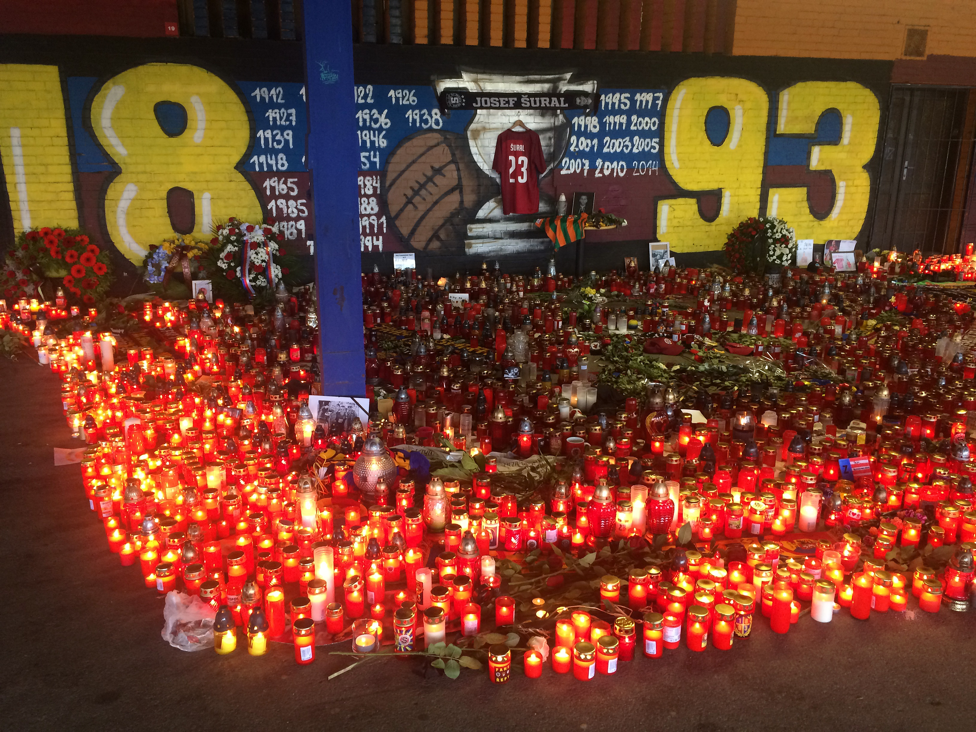 Candle memorial to deceased Czech footballer Josef Šural at Sparta stadium, Prague.